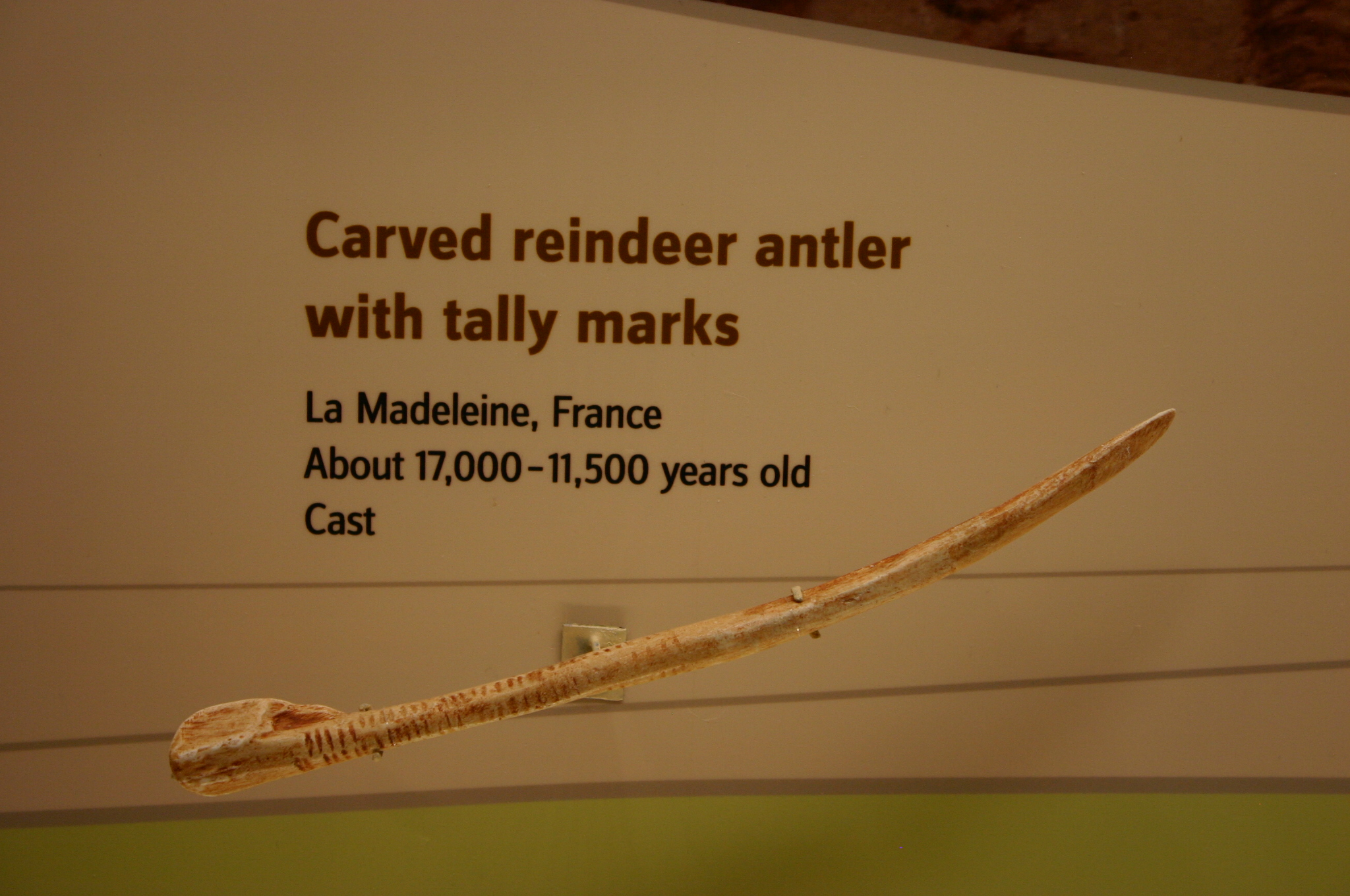 Carved reindeer antler with tally marks. Tally stick, La Madeleine, France, about 17,000-11,500 years old, Cast. Taken at the David H. Koch Hall of Human Origins at the Smithsonian Natural History Museum.